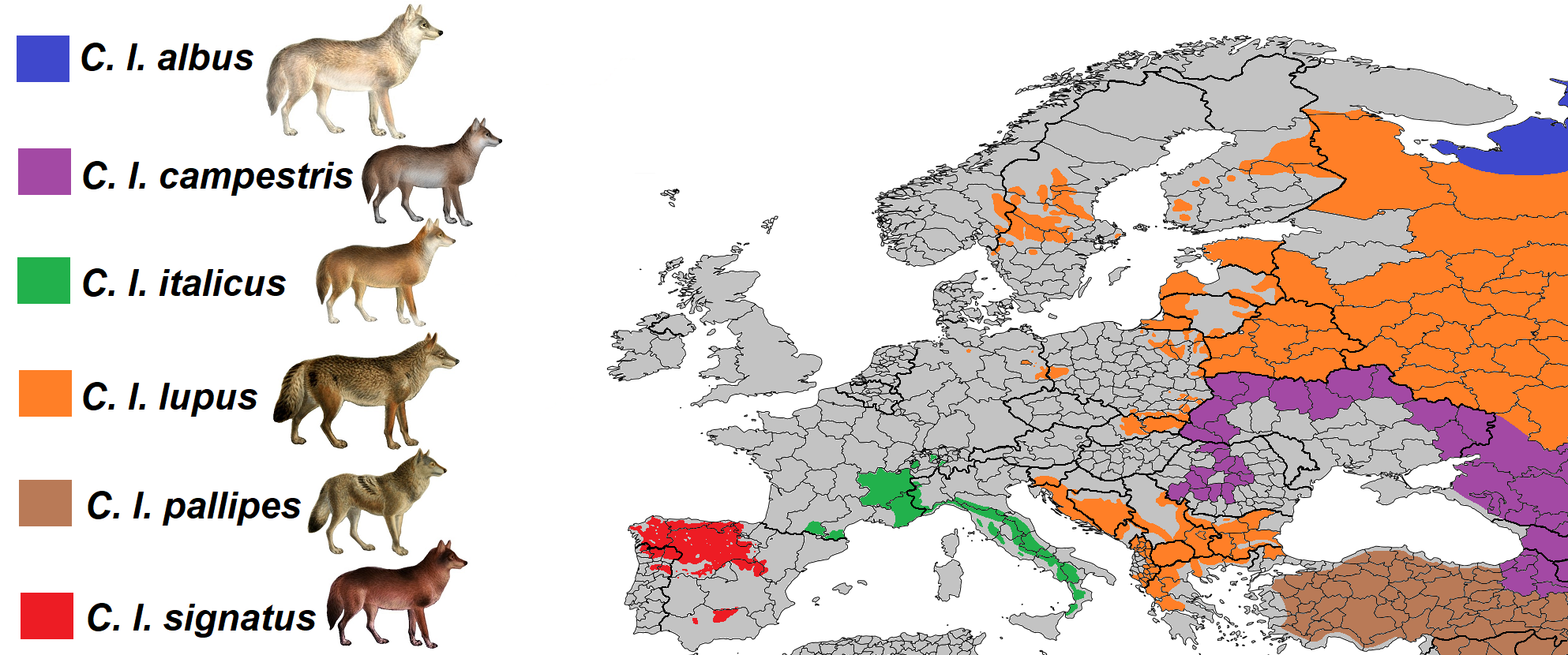 Present distribution of European grey wolf subspecies. All except signatus and italicus are recognised by MSW3. Latter two added in light of DNA studies. Campestris range reconstructed from Heptner et al (1998). NOTE FOR EDITORS: Use Microsoft paint for range modifications.